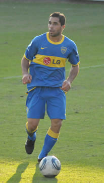 Leandro Aguirre en partido de reserva (Boca - River).